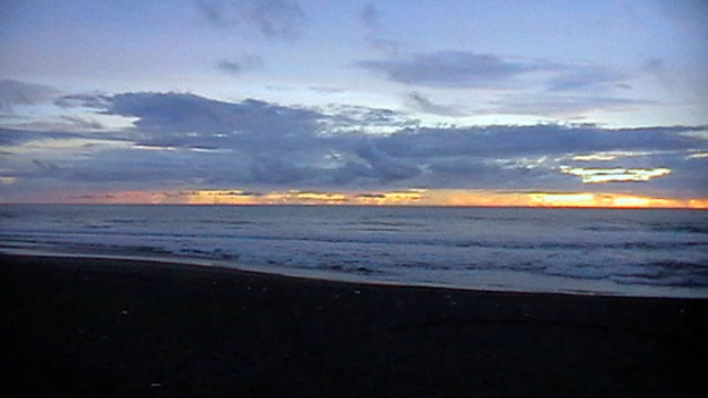 Jatimalang Beach in Purworejo Regency, Central Java